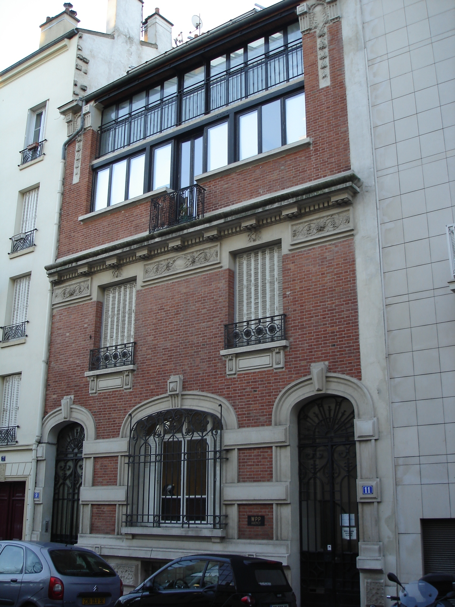 Artist house, 11 rue Chaptal, Levallois-Perret, suburb of Paris. Built in 1910 by L. Cuinat.